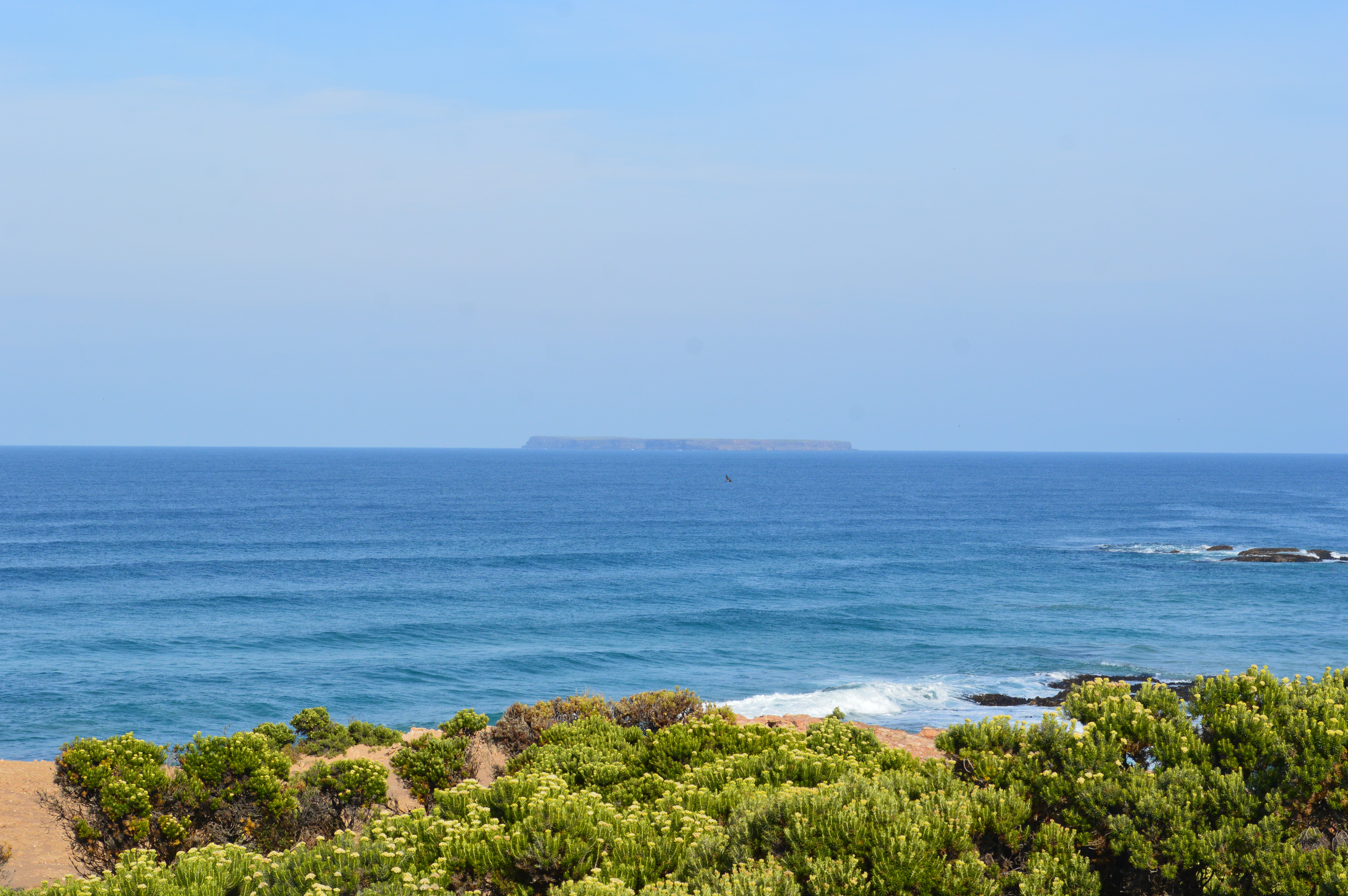 Lady Julia Percy Island as seen from the coast near Yambuk, Victoria